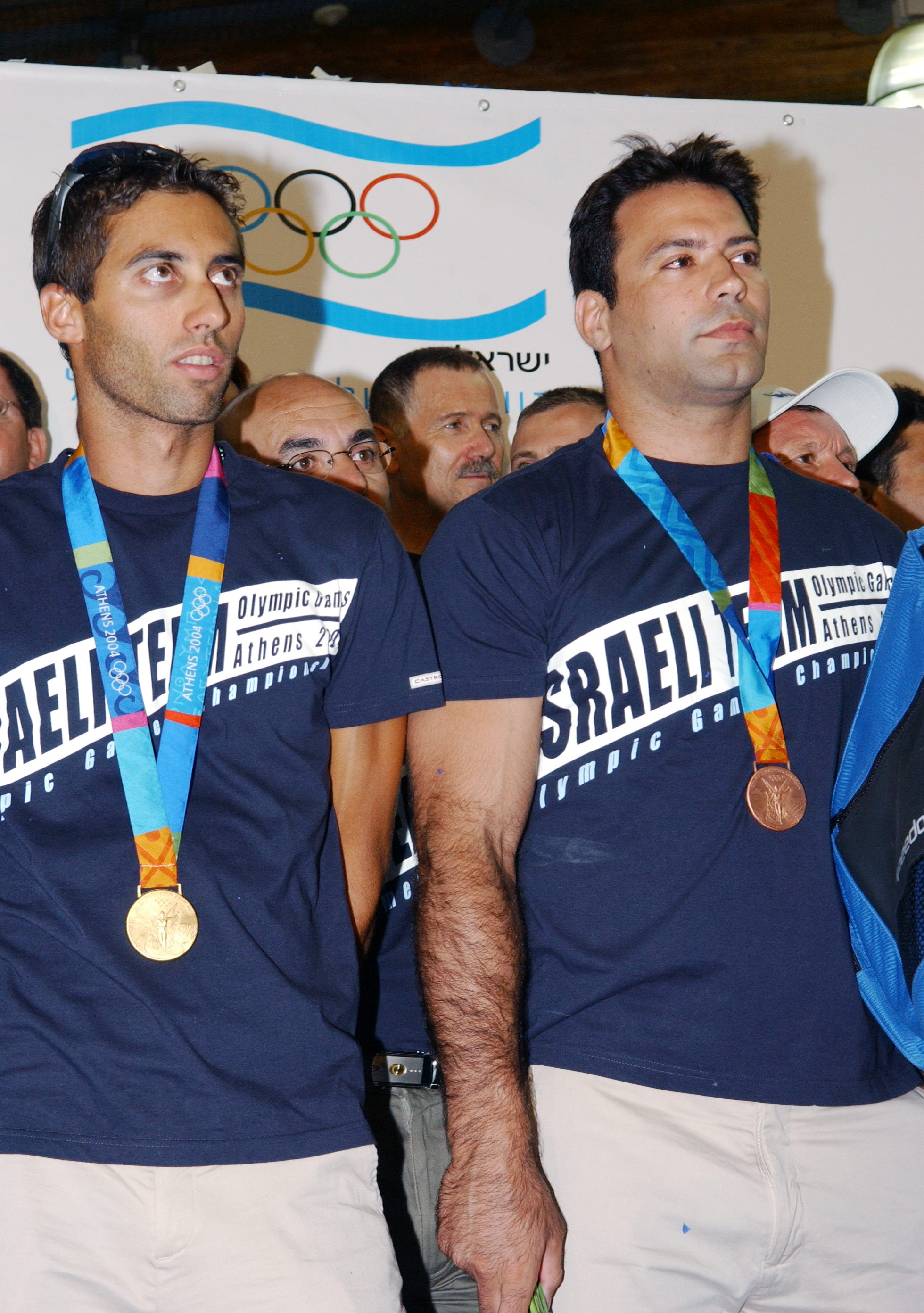 Gold medalist windsurfer Gal Fridman (left) and bronze medalist judoka Arik Ze'evi at Ben-Gurion Airport upon their arrival from Athens 2004 Olympic Games.